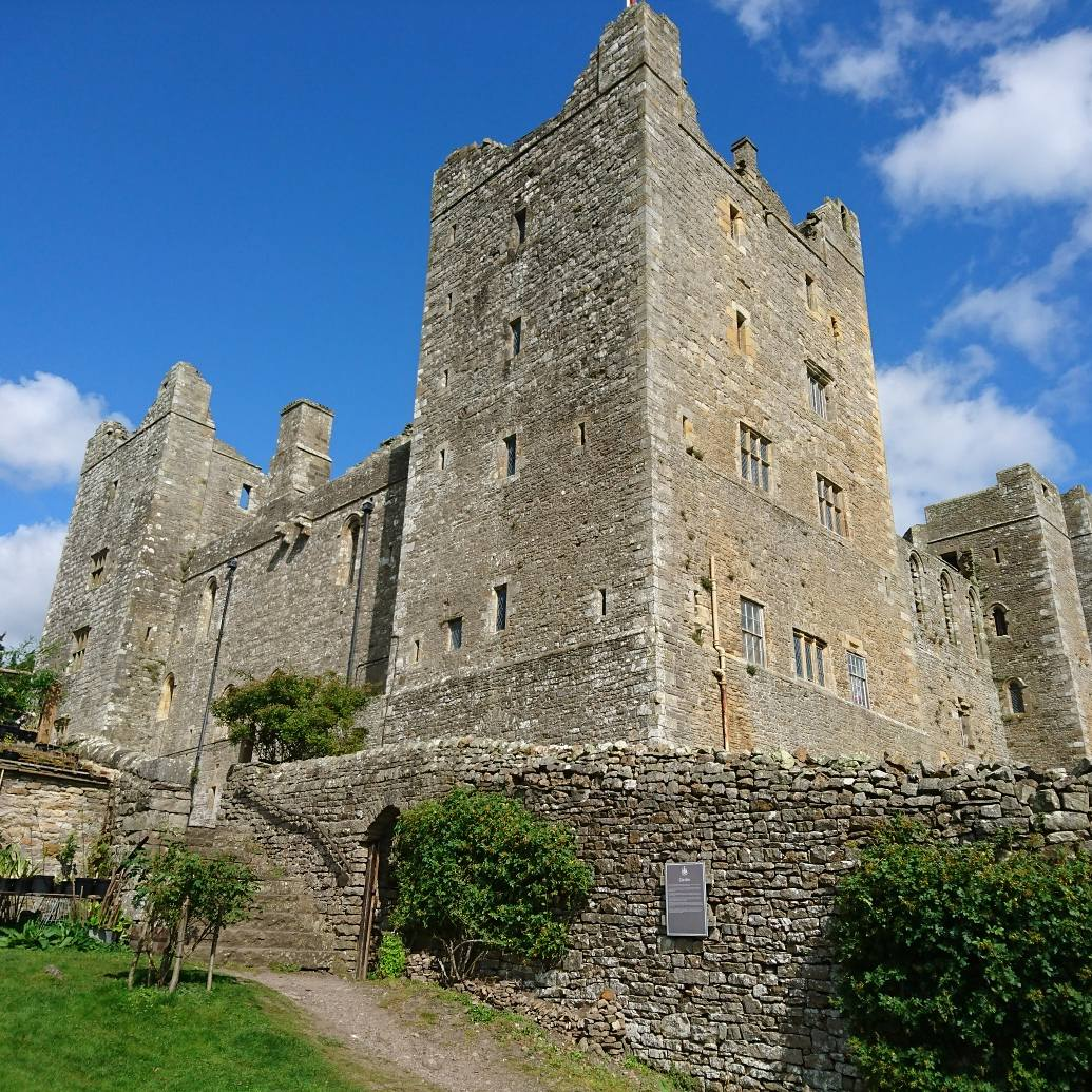 Bolton Castle Wikidata has entry Q495086 with data related to this item.